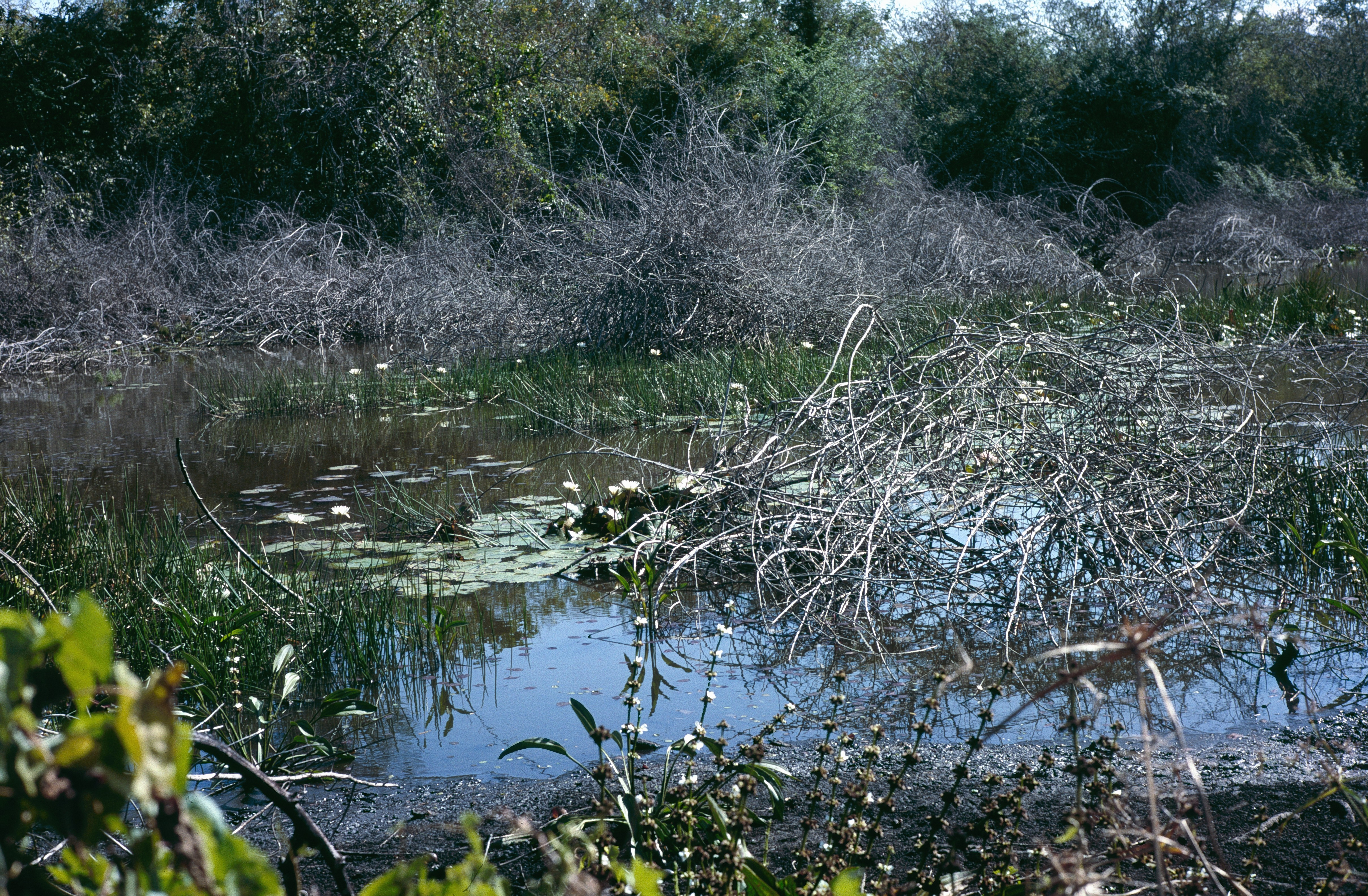 Uxmal, Yucatan, Mexico: Auguada south of Uxmal, containing water in February near end of the dry season